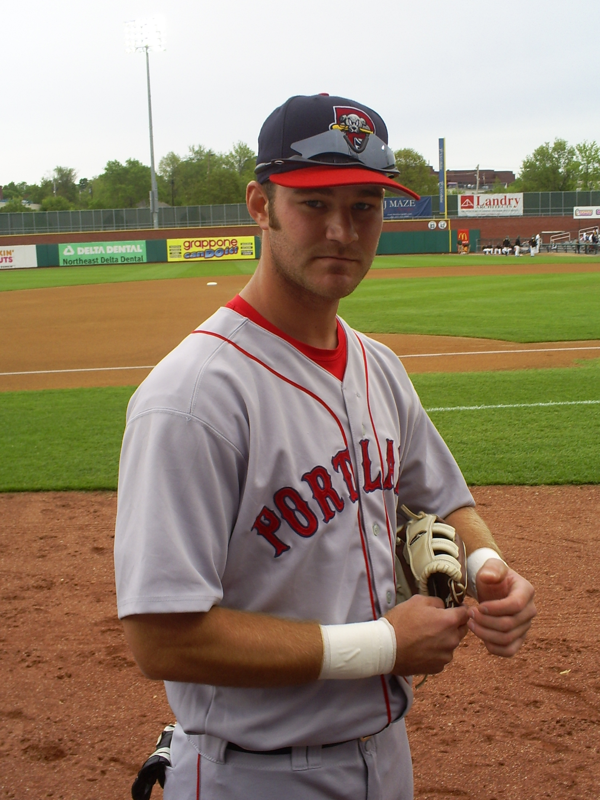 Photo was taken by Craig Michaud while Zach was playing for the Portland Sea Dogs 02:32, 9 February 2009 . . Thebudman623 . . 1,920×2,560 (2.15 MB)